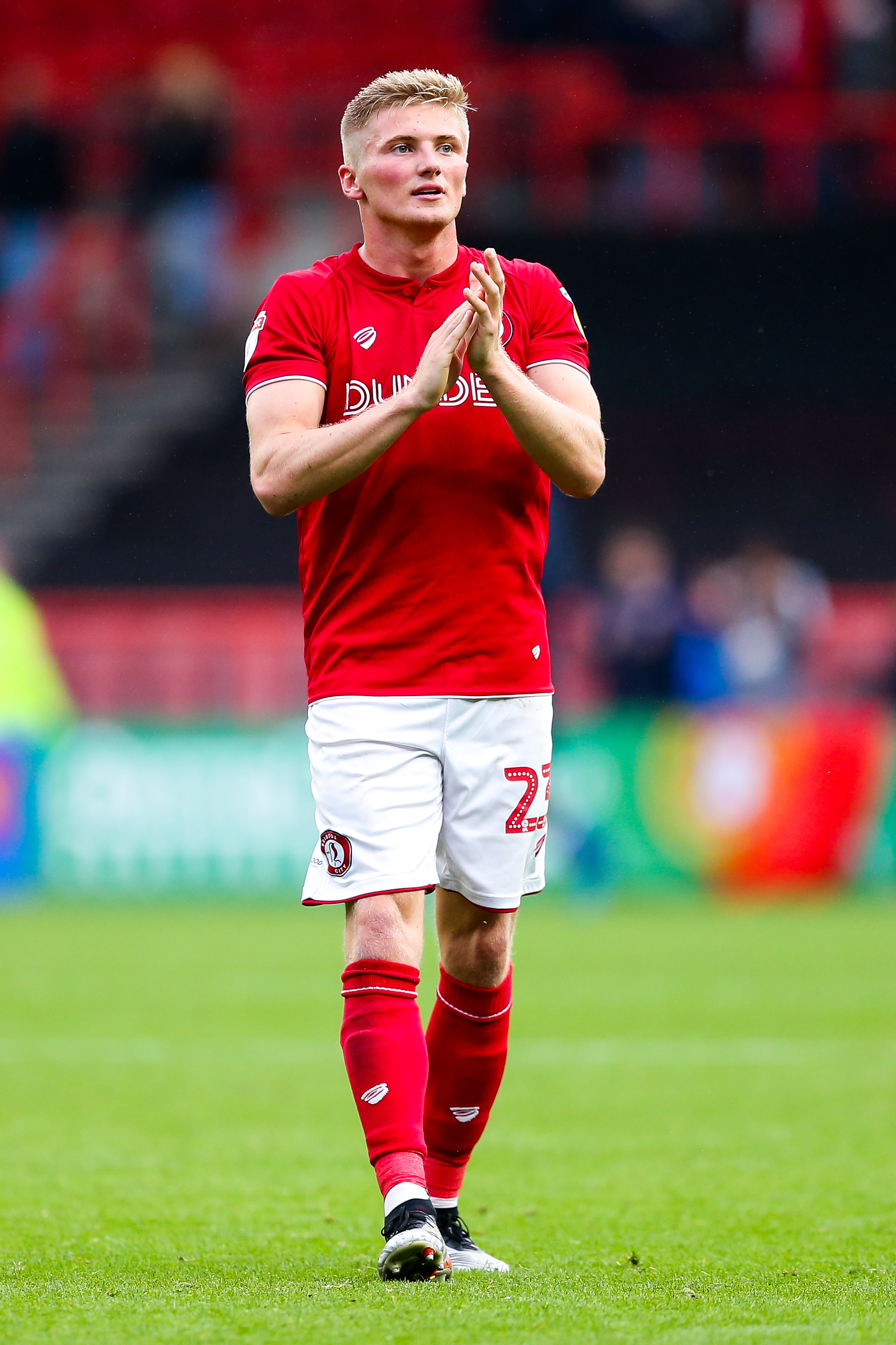 Taylor Moore of Bristol City after a 1-0 win against Reading in the Sky Bet Championship.